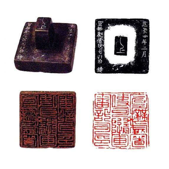 A Song Dynasty (about 1,000 years ago) governmental seal: Remarks on its surfaces indicating the date and the office. Made of copper.